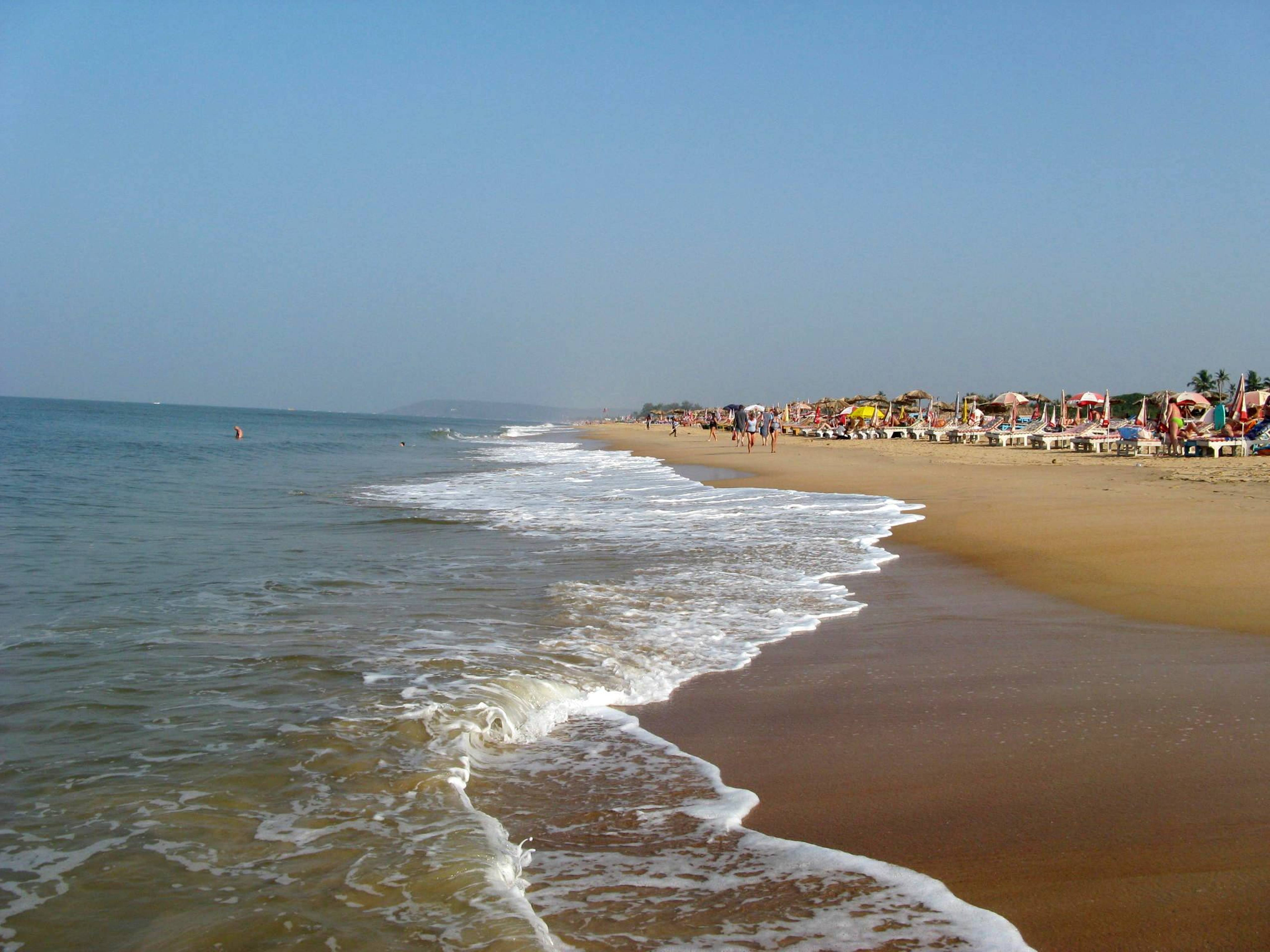 Kandolim beach, Goa